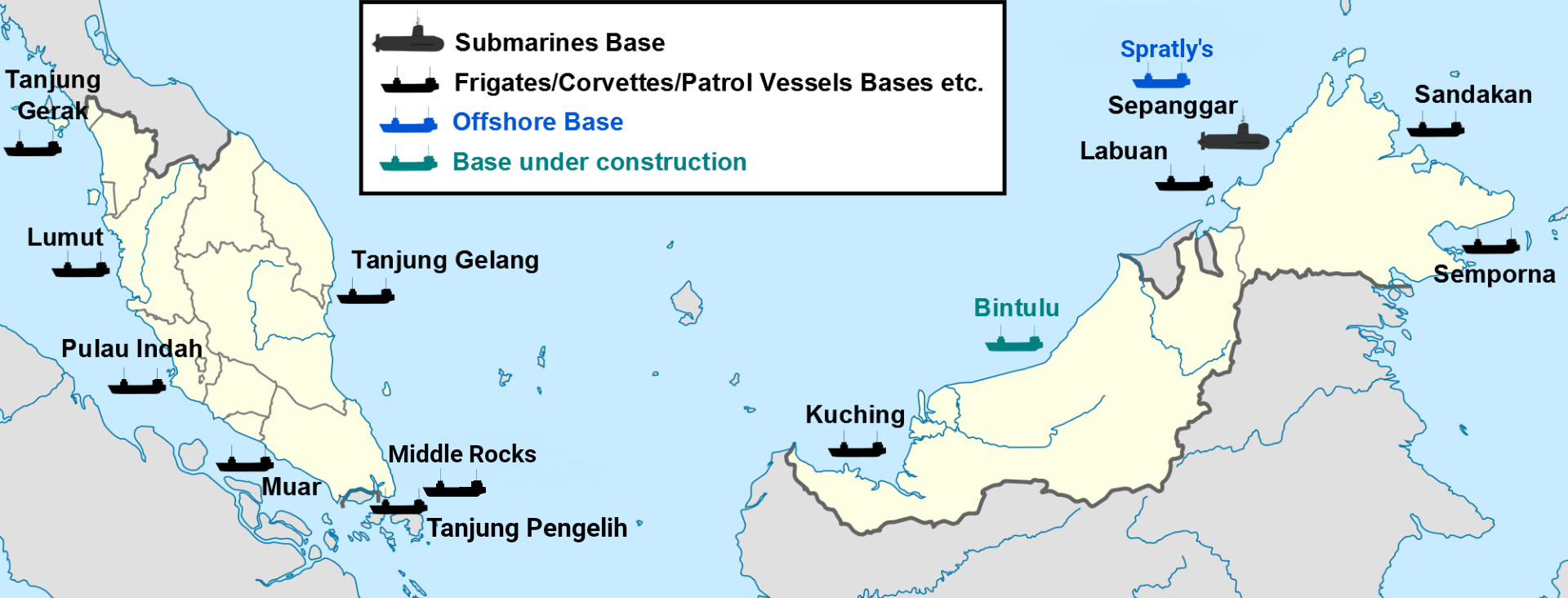 Submarines and ships bases of the Royal Malaysian Navy.